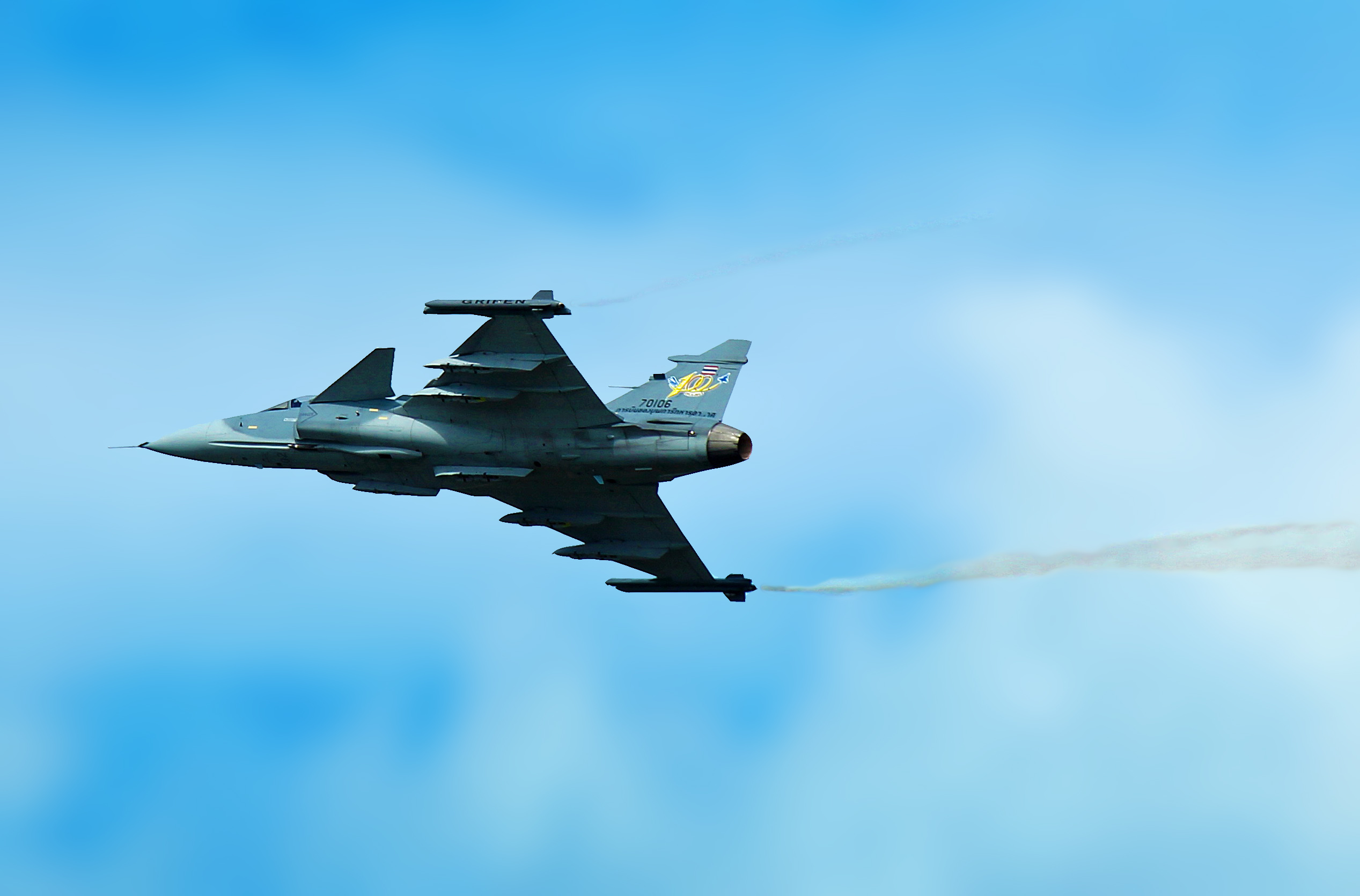 Royal Thai Air Force : Jas 39 Gripen C single seat fly during air show at Don Maung airport ,Bangkok